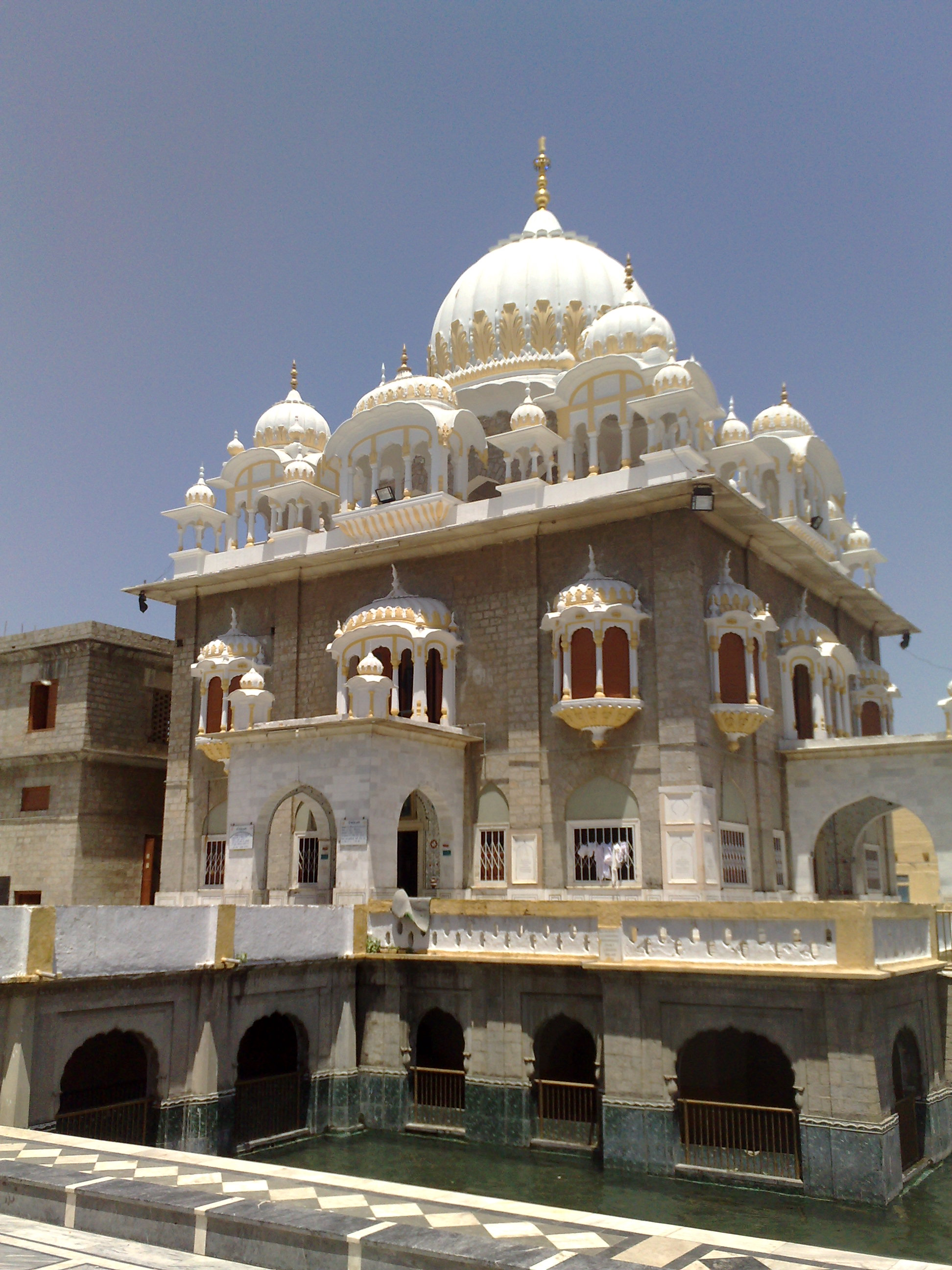 Sikh 'Hasan Abdal Temple' — of Punjab, Pakistan. "Where Sikh IDP'S from Swat have taken shelter."